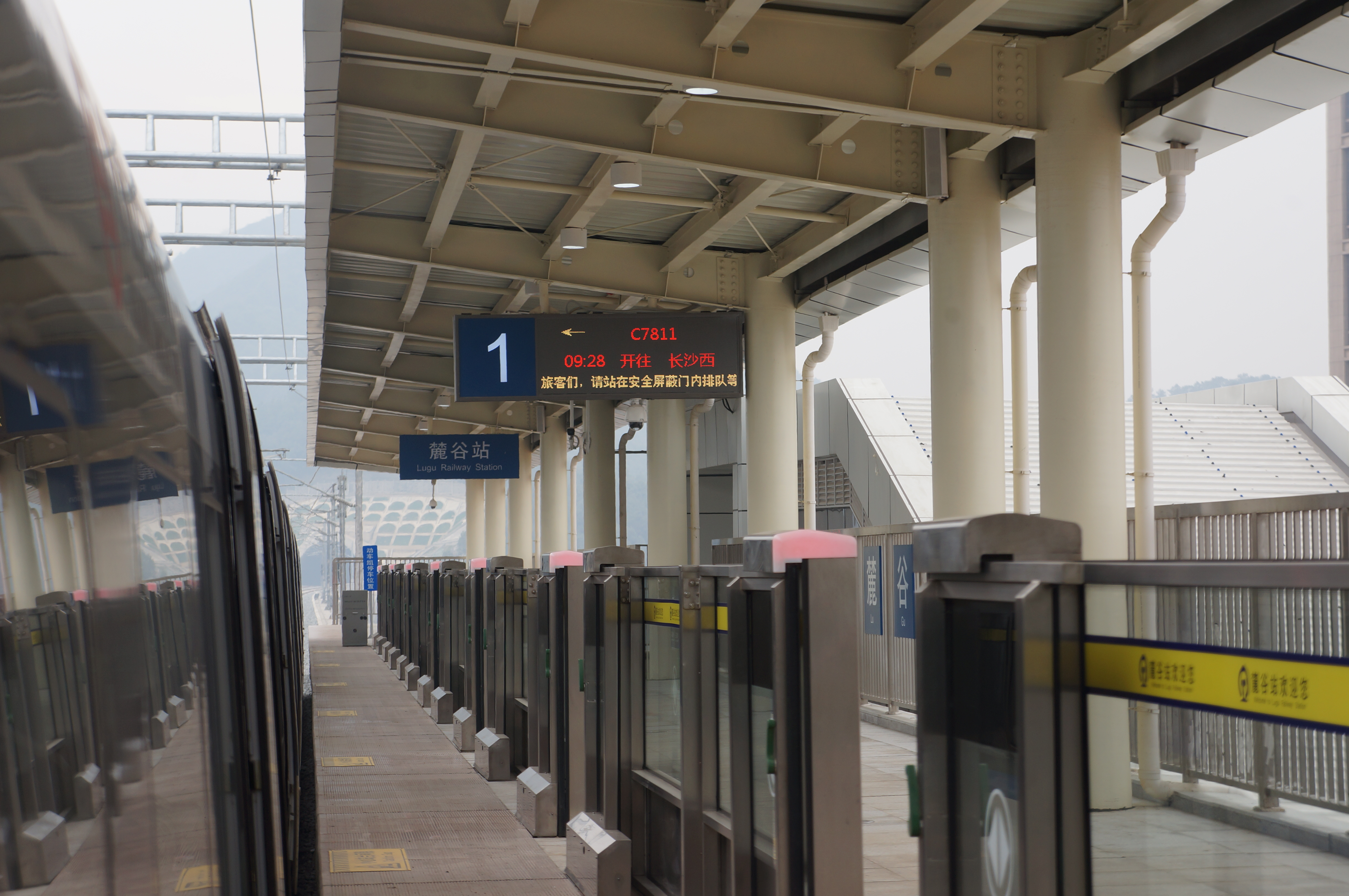 201712 Platform 1 of Lugu Station, with huge amount of elder passengers get aboard.